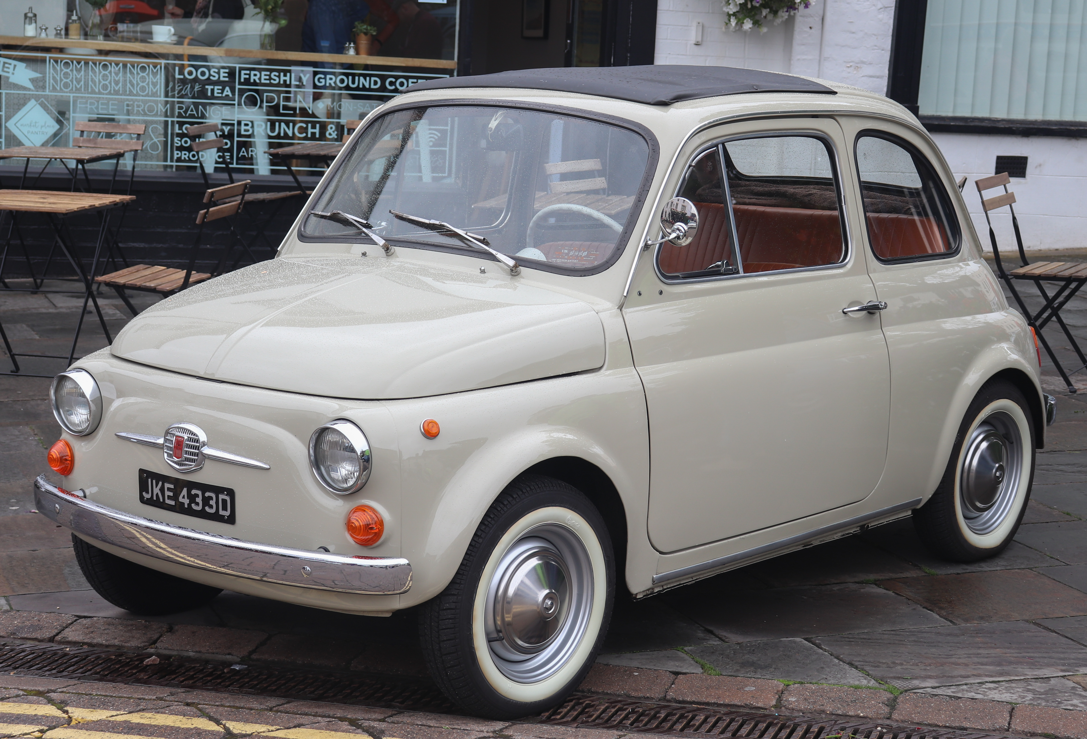 1966 Fiat 500F Taken at the 2018 Warwick Classic Car Show